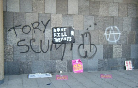 Political graffiti inscribed on the Millbank Tower following the 2010 student protest in London.